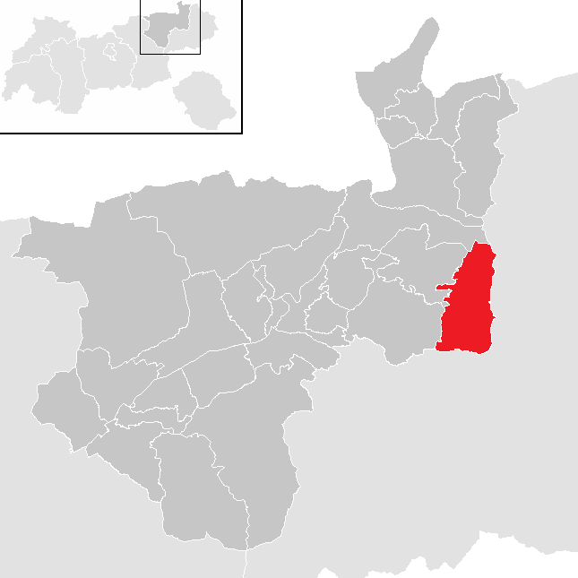 District Kufstein